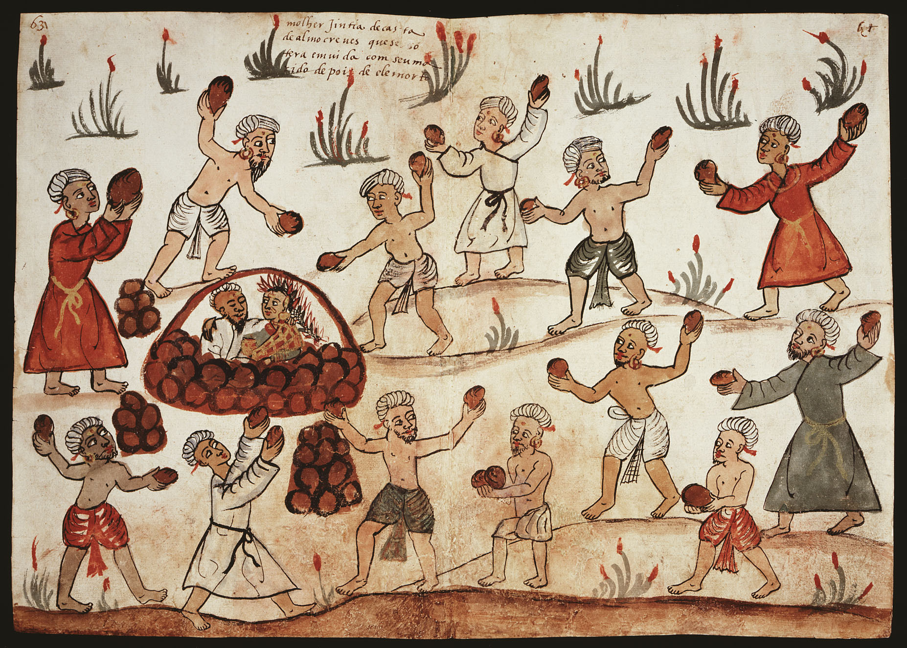 Anonymous 16th century Portuguese illustration from the Códice Casanatense, depicting a Hindu ritual, in which a widow is buried alive with her dead husband. The inscription reads: "Gentile women of the caste of the cattle drivers, who is buried alive with her husband after he had died"